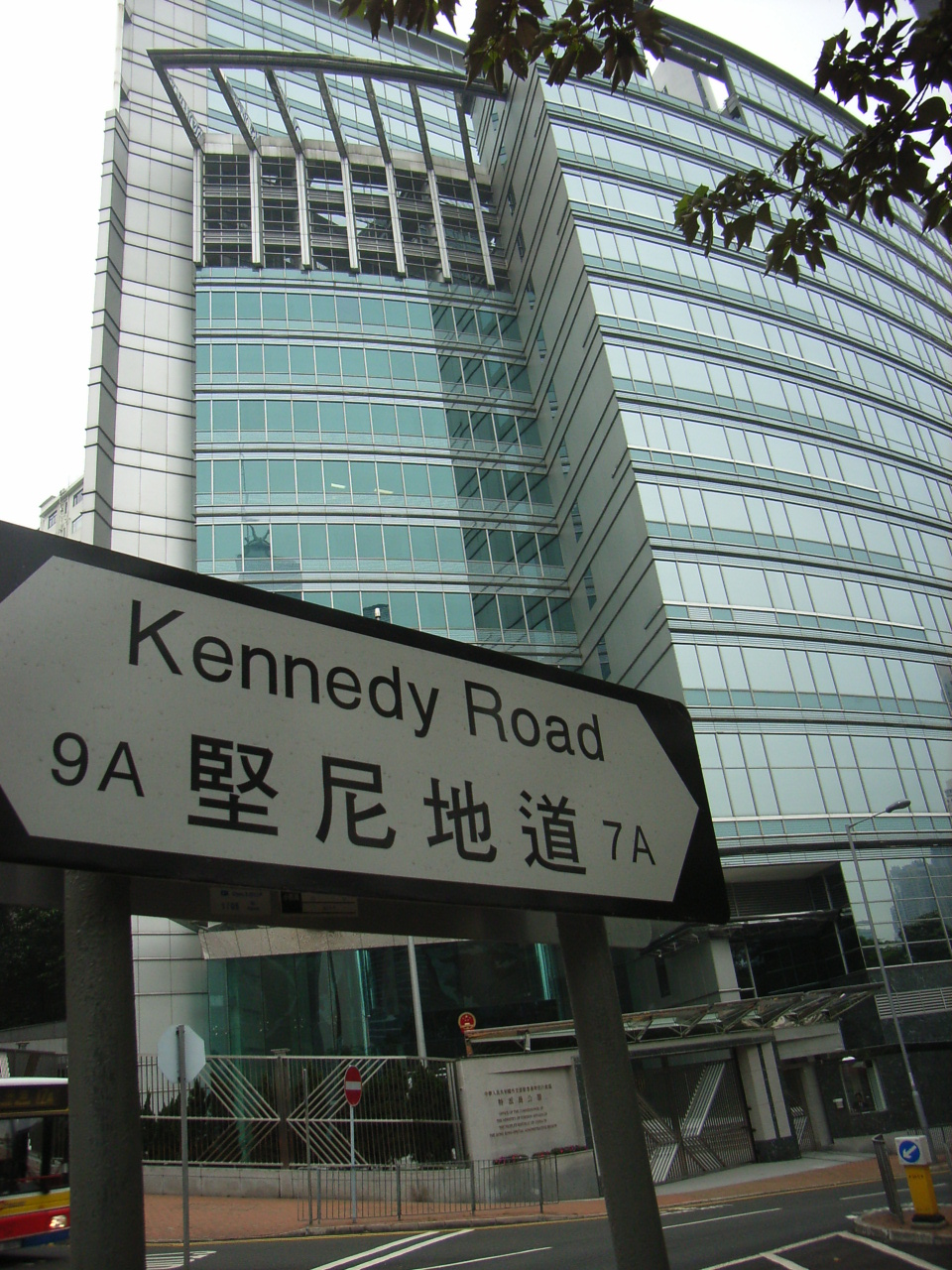 中國外交部駐港特派員公署 Office of The Commissioner of The Ministry of Foreign Affairs of The People's Republic Of China in The Hong Kong Special Administrative Region